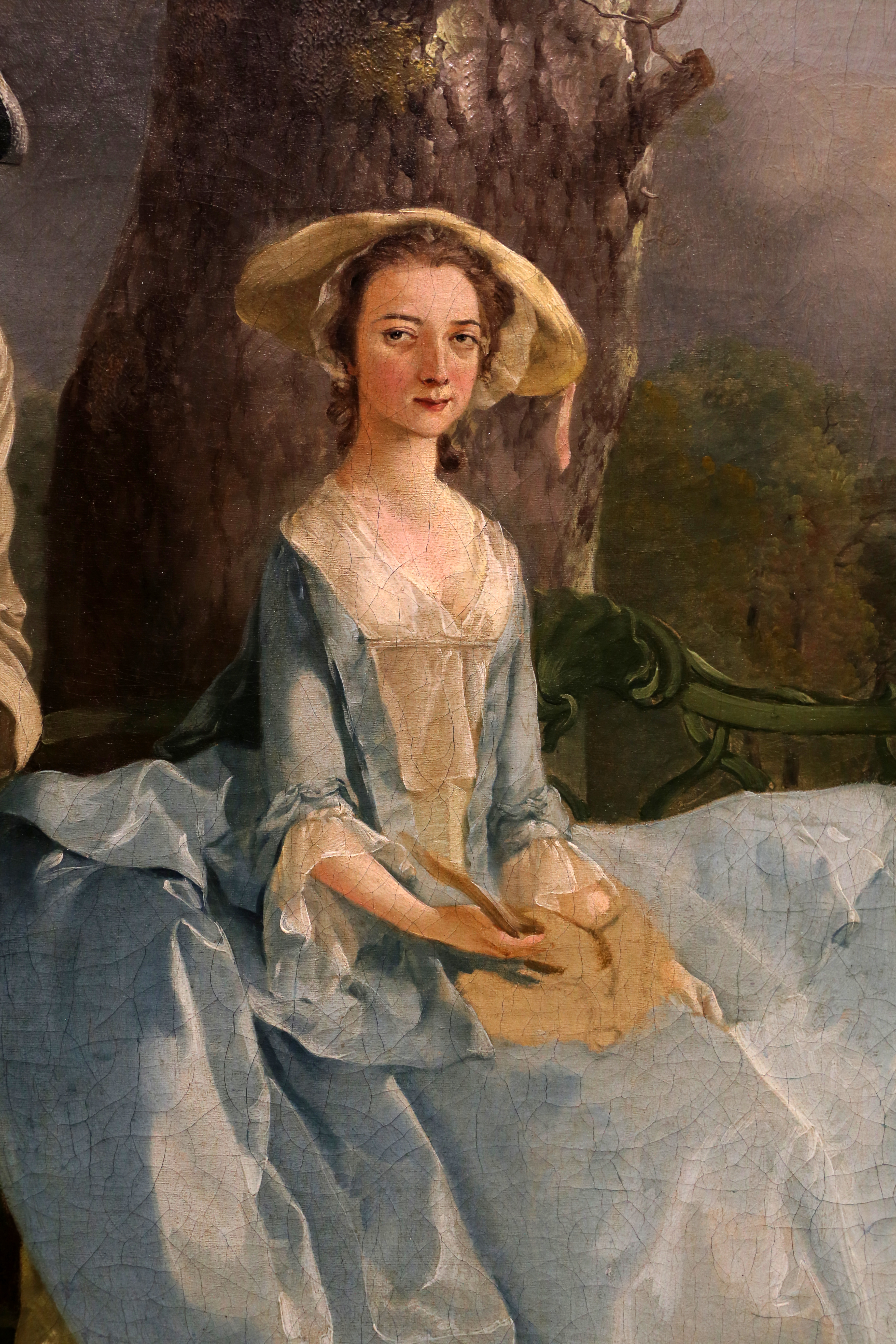 Paintings by Thomas Gainsborough in the National Gallery, London